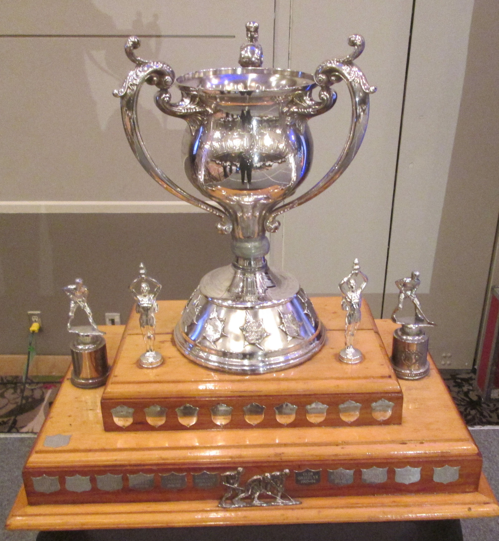 Photo of Abbott Cup on display at Memorial Cup tournament.